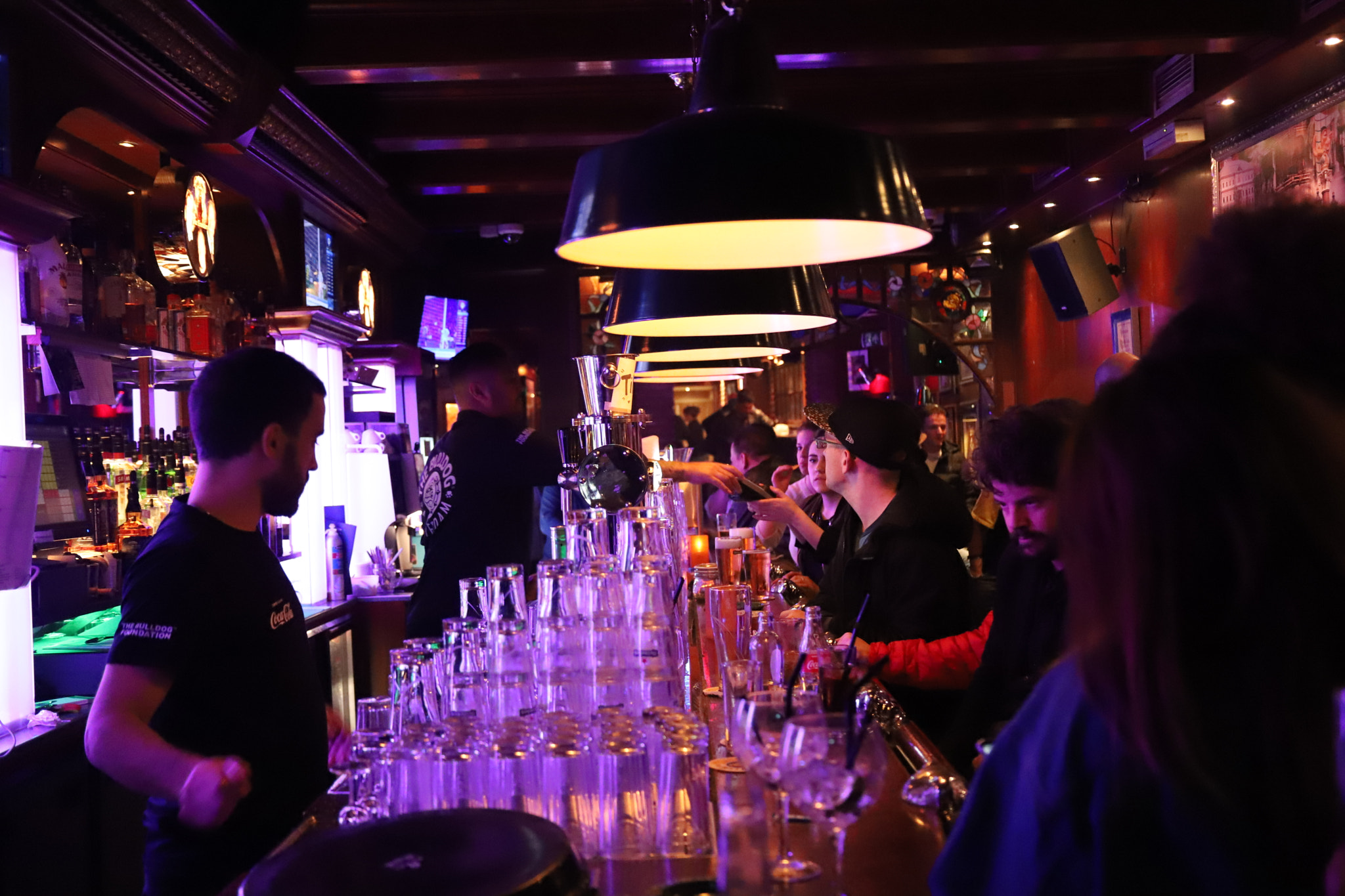 500px provided description: Night Life At Amsterdam [#city ,#bar ,#nightlife ,#party ,#amsterdam ,#beer ,#nightclub ,#night club ,#socializing ,#champagne flute]